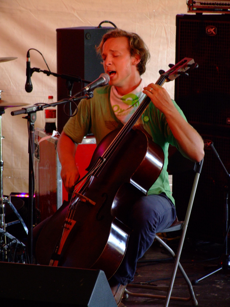 Ben Sollee playing a cello at the Cafe Where tent at Bonnaroo on Friday afternoon, 2009-06-12.